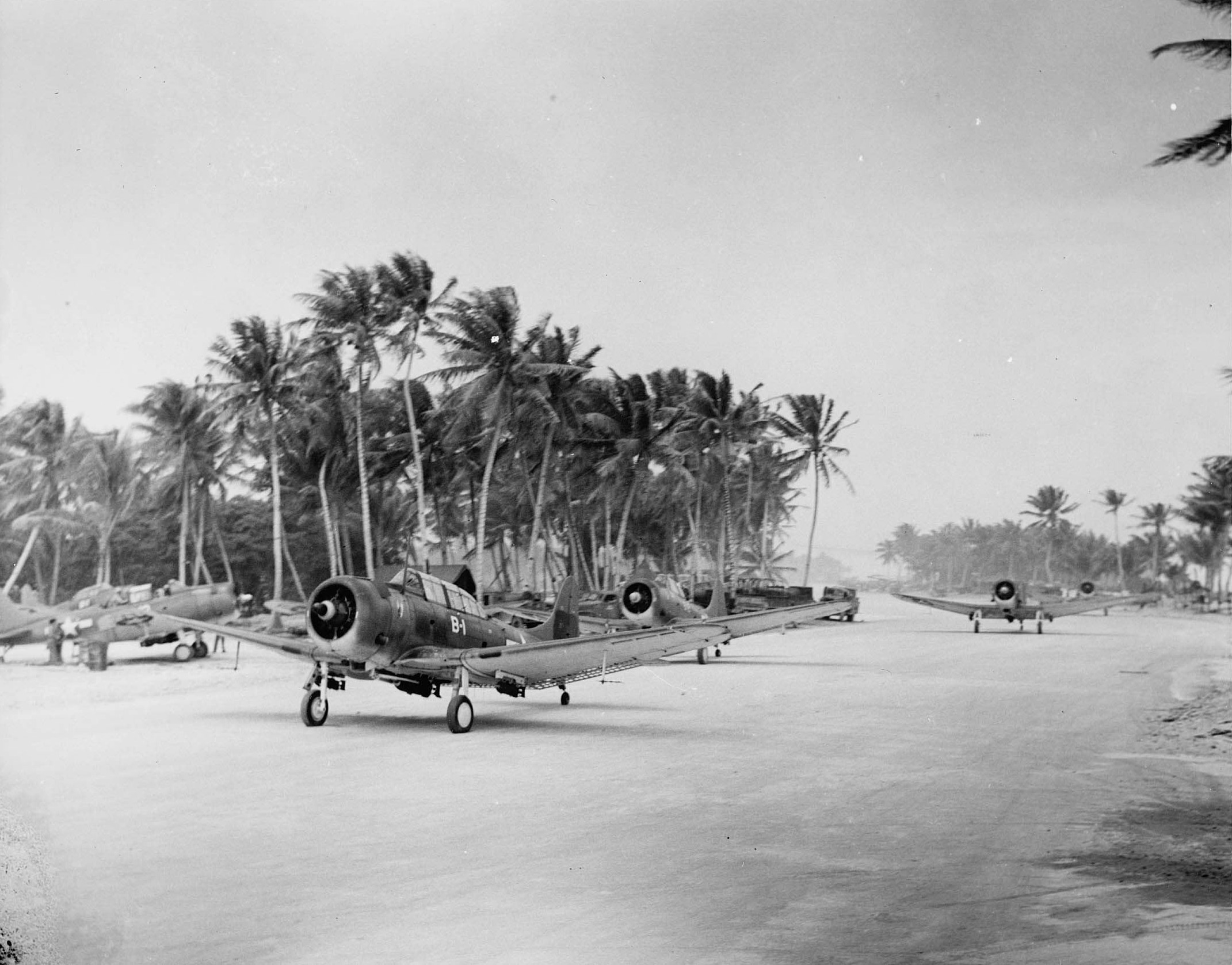 U.S. Marine Corps Douglas SBD-5 Dauntless dive bombers of Marine scout-bombing squadron VMSB-231 taxi on the airstrip at Majouro, Marshall Islands, prior to launching on attack against Japanese installations on Mili Atoll (6°7'60N 171°55'0E). Mili was bombed for eighteen months by US aircraft. All supply lines were cut off, and of the originally 5,100 strong Japanese garrison only 2,500 survived, dying mainly from starvation. It was the first Pacific island to surrender on 22 August 1945. Redesignated from Marine Scouting Squadron Two (VMS-2) in July 1941, VMSB-231 aircraft flew to Midway in December 1941, and in March 1942 some elements returned to Hawaii. The remaining personnel formed the nucleus of a new squadron, VMSB-241, which fought during the Battle of Midway in June 1942. Following the battle, the survivors returned to VMSB-231. The squadron arrived at Guadalcanal on 30 August 1942, and remained there until November. Subsequently, the squadron served in the Marshalls, where for a brief time it flew F4U Corsairs under the designation VMBF-231. The squadron was redesignated VMTB-231 in August 1945.